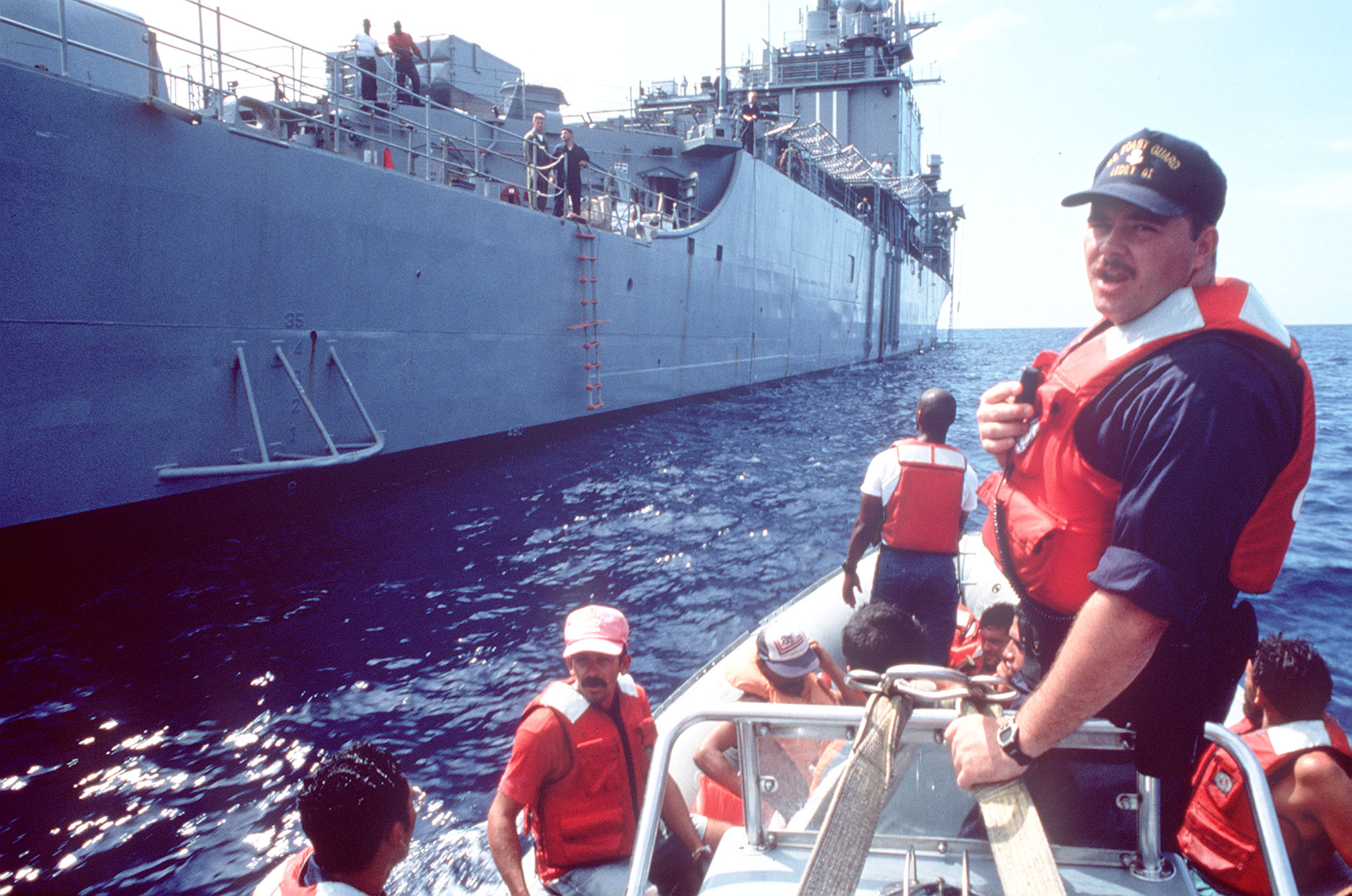 Between Cuba and the Florida Keys (Sept. 19)-- Coast Guardsman, BM2 John Greenwell, from LEDET 8I (Law Enforcement Detachment) transport cuban migrants to a navy ship during Operation Able Vigil. Operation Able Vigil got underway in mid-August when the number of Cuban rafters rescued in the Florida straits skyrocketed above the month of June record of 1,173 to 2,607 in a single week of August.